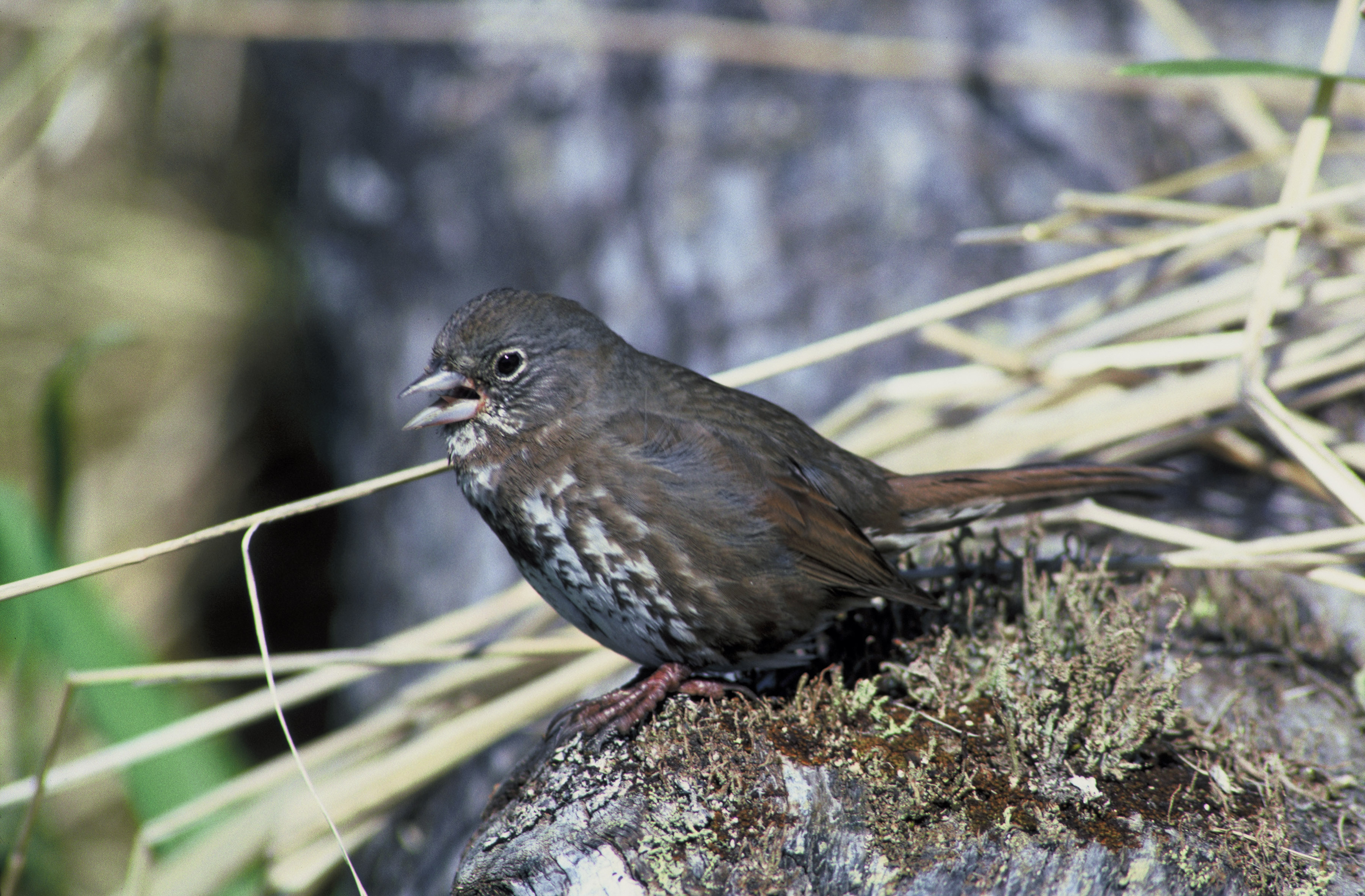 Sooty Fox Sparrow Passerella unalaschcensis insularis, Kodiak Island, Alaska